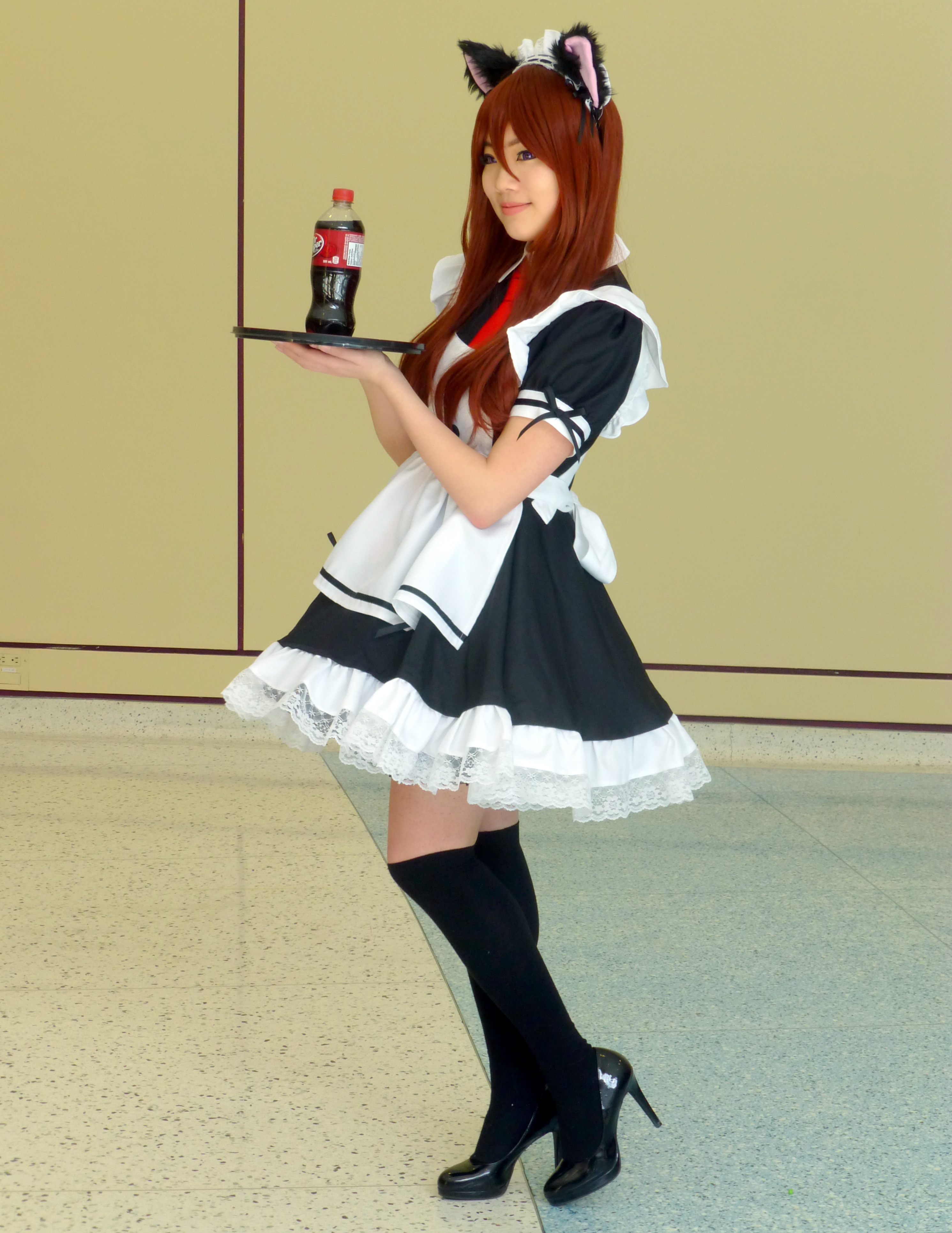 Cosplayer of Kurisu Makise from Steins;Gate at Toronto Comicon 2015, wearing a French maid's outfit with cat ears.